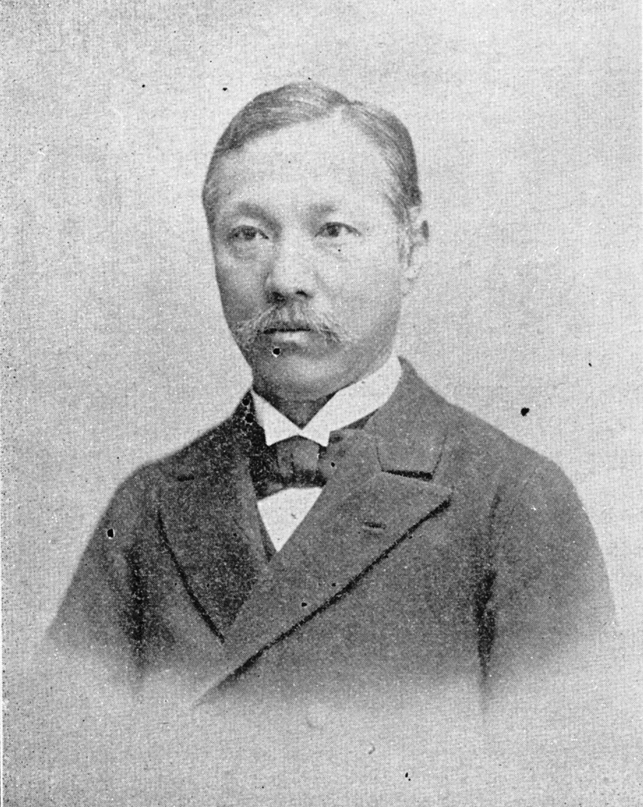 Matsudaira_Masanao, the Vice-Minister of the Home Affairs